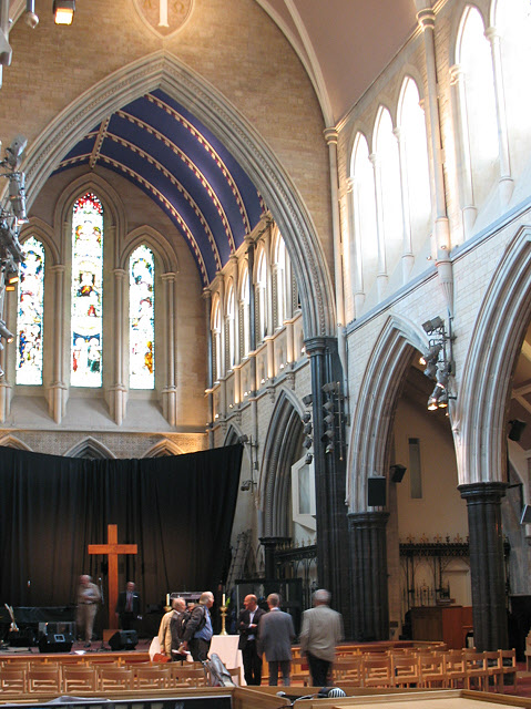 St Paul's Hammersmith: interior, near to Hammersmith, Hammersmith And Fulham, Great Britain. The interior of the church was changed first in the 1970s when the pews and chancel fittings were removed, and again with a major restoration completed in 2010. This view shows the light Bath stone of the walls (which had become darkened over the years by pollution and had to be cleaned up) and the naturally dark marble of the columns.